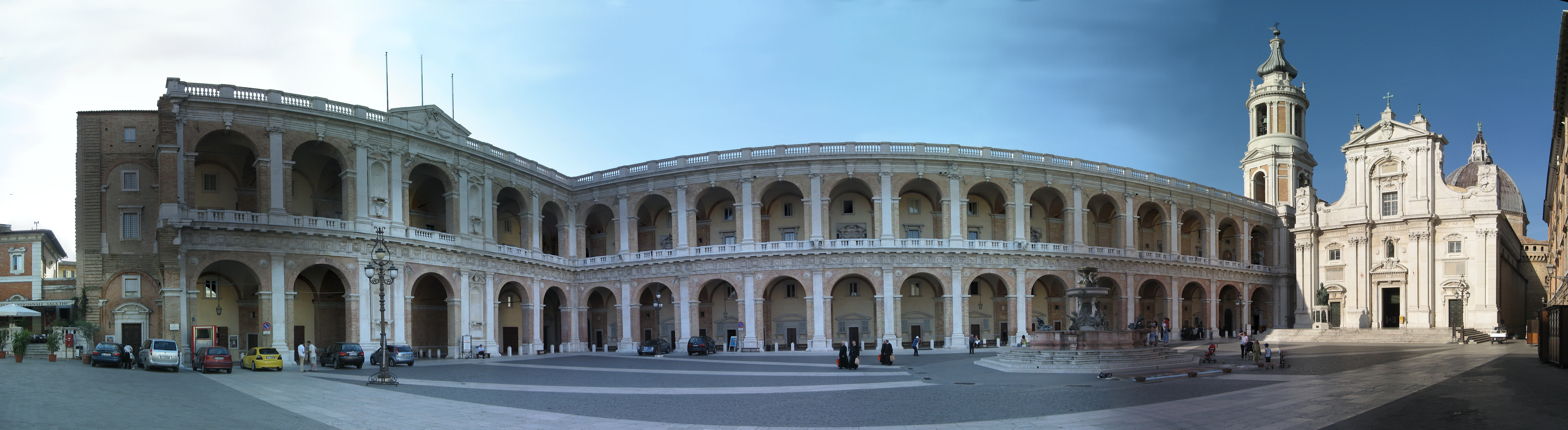 Loreto Cathedral square , Italia (panorama)